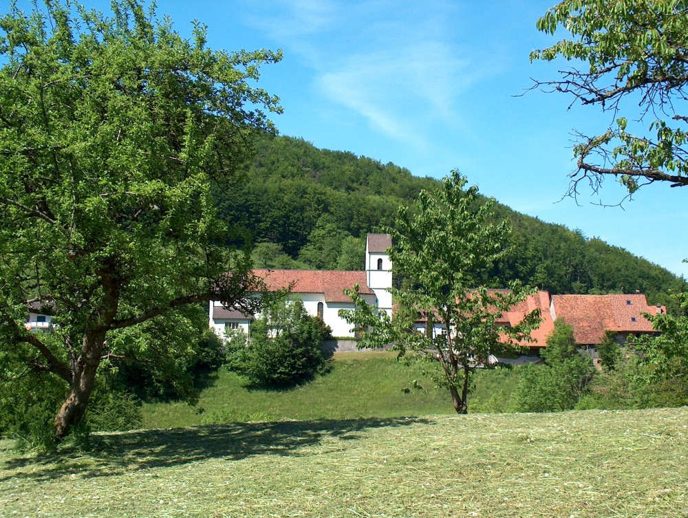 Church of the village of Grindel in the Swiss canton of Solothurn.